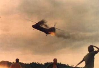 Hit by enemy AAA fire, a U.S. Marine Corps Boeing Vertol CH-46 Sea Knight from Marine Medium Helicopter Squadron 265 (HMM-265) trails smoke and flame. The H-46 crashed, and exploded upon impact, in the Song Ngan Valley (nicknamed "Helicopter Valley", approx. 55 miles NW of Hue), Vietnam, on the afternoon of 15 July 1966 - the fifth H-46 lost in the valley that day. Of the 16 Marines aboard (4 crewmen and 12 Marines) 13 died in the crash and fire. Although severely burned, the remaining three Marines survived.